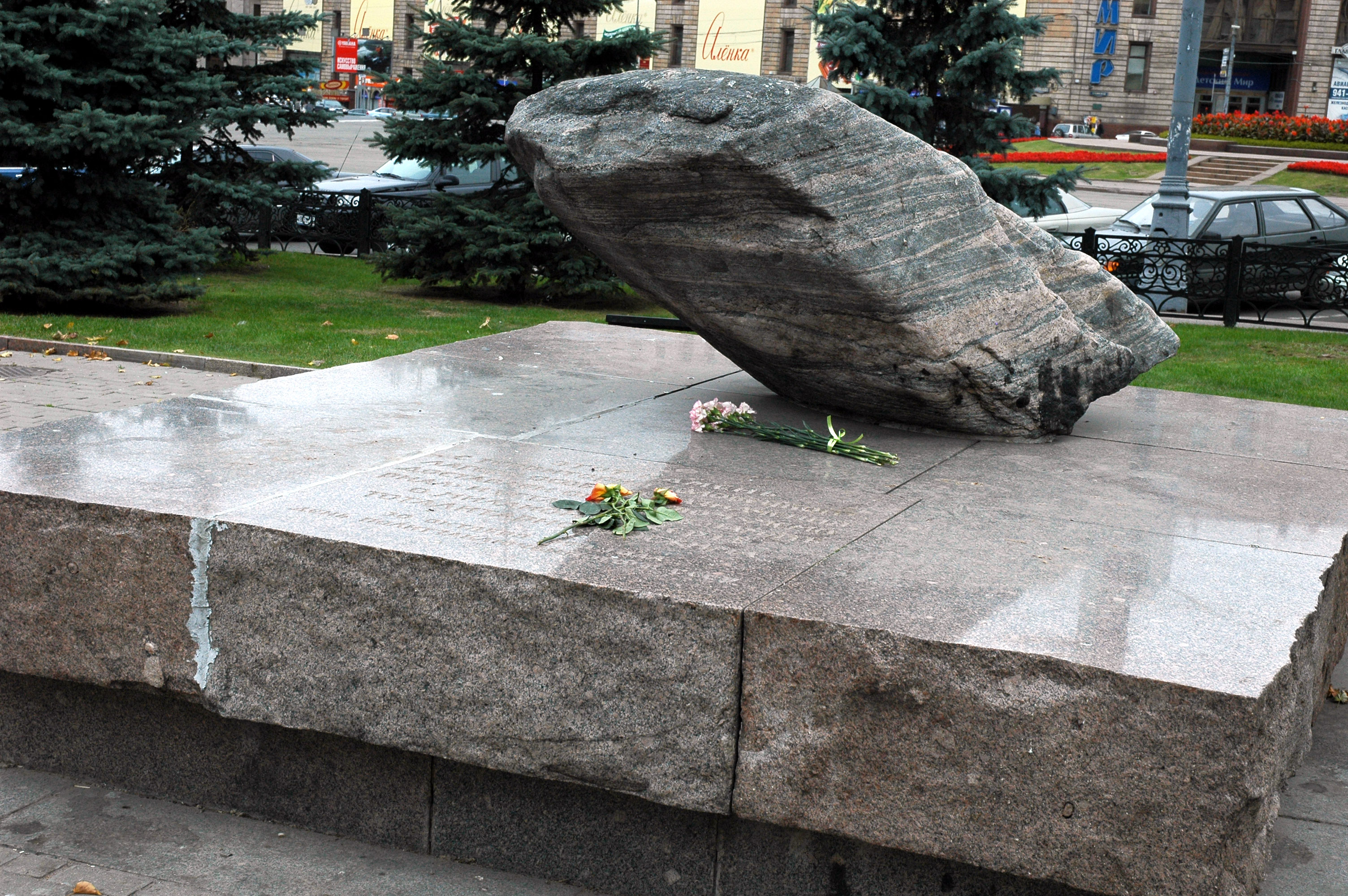 Monument commemorating the victims of the political oppression in the USSR: a stone from Solovki concentration camp installed in front of the former KGB headquarters at Lubyanka Square in Moscow on October 30, 1990.